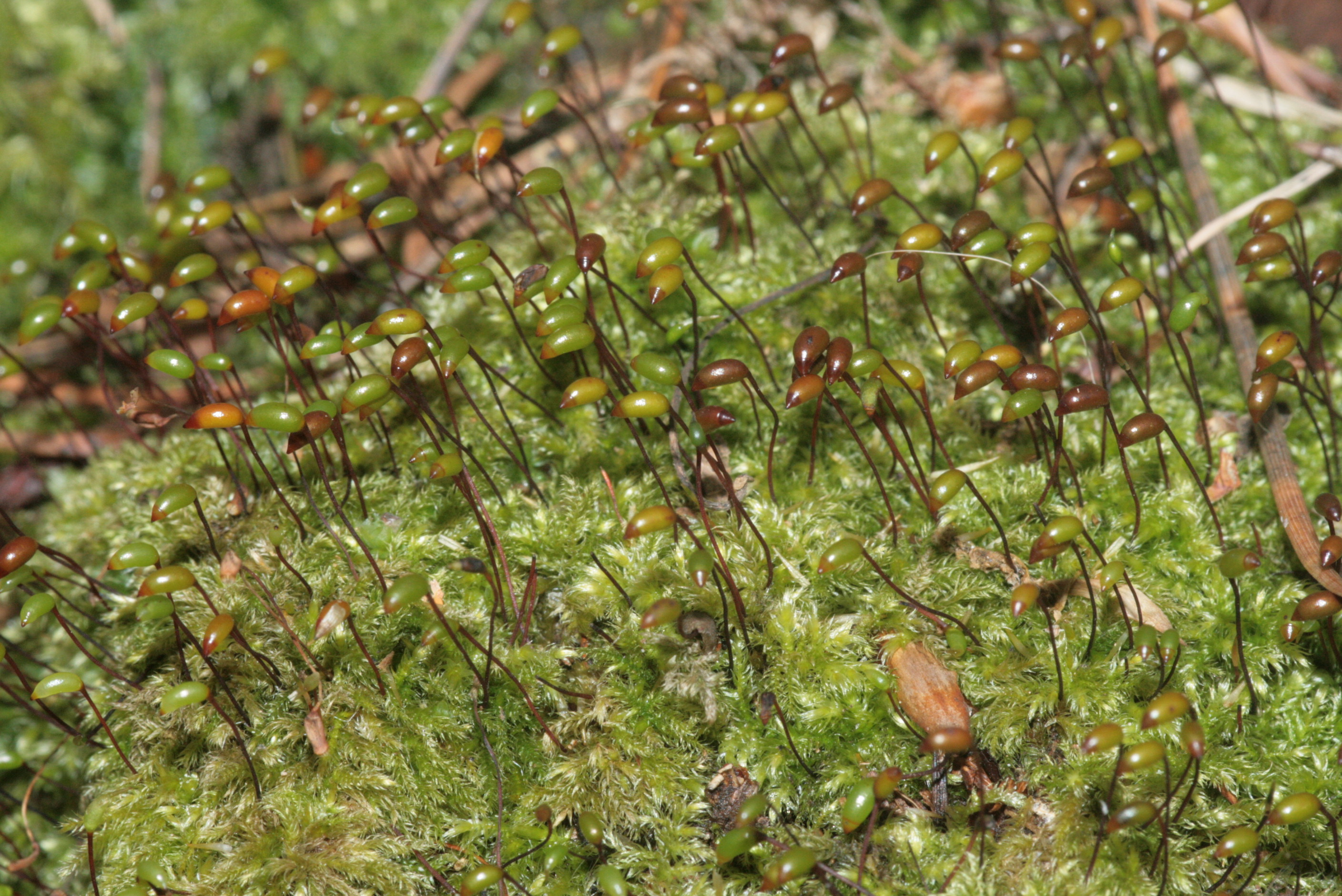 Brachytheciastrum velutinum